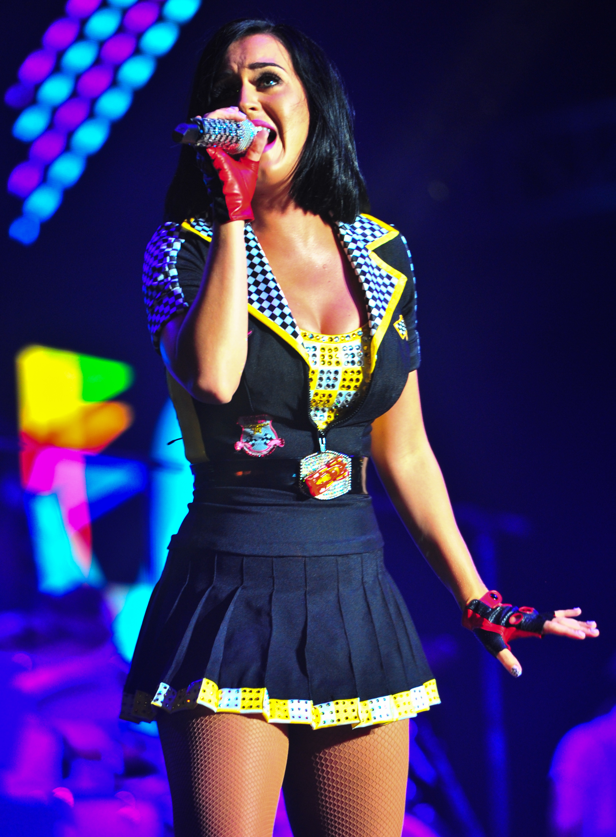 Katy Perry performing in California Dreams Tour, September 2012.